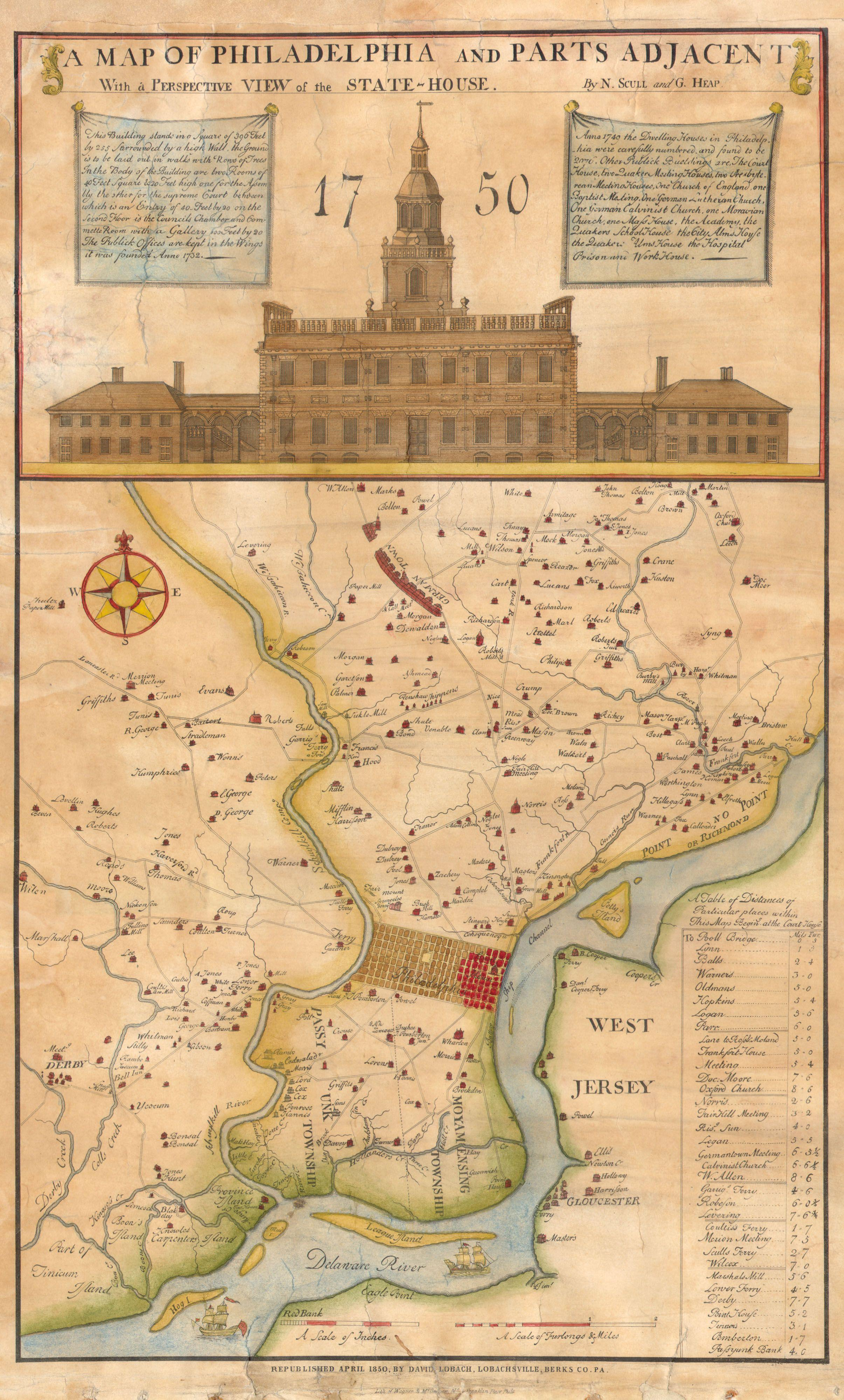 This rare map is an 1850 reprint of an important 1752 map originally issued by N. Scull and G. Heap. George Heap, a surveyor and city coroner of Philadelphia, and Nicolas Scull, Surveyor General of the Province of Pennsylvania prepared the original map to illustrate the roads, canals, and important landowers of Philadelphia and its vicinity. This map also features the first known sketch of the Philadelphia State House, which, in 1752 when this map was assembled, was as yet incomplete. We can surmise, therefore, that the sketch of the State House that appears here was in fact drawn from blueprints, to which, as city officials, both Scull and Heap would have had access. The original map was reprinted several times in the upcoming century. It appeared in Gentleman’s Magazine in 1753 and in this reprint, issued by David Lobach in 1850.